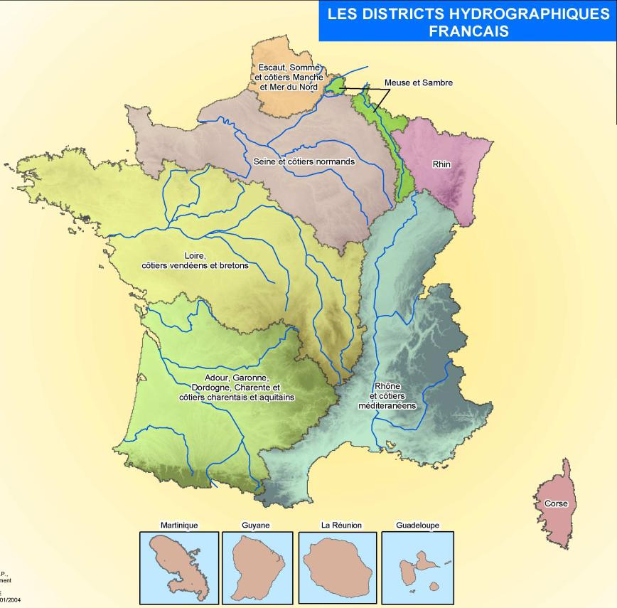 France Watershed Map